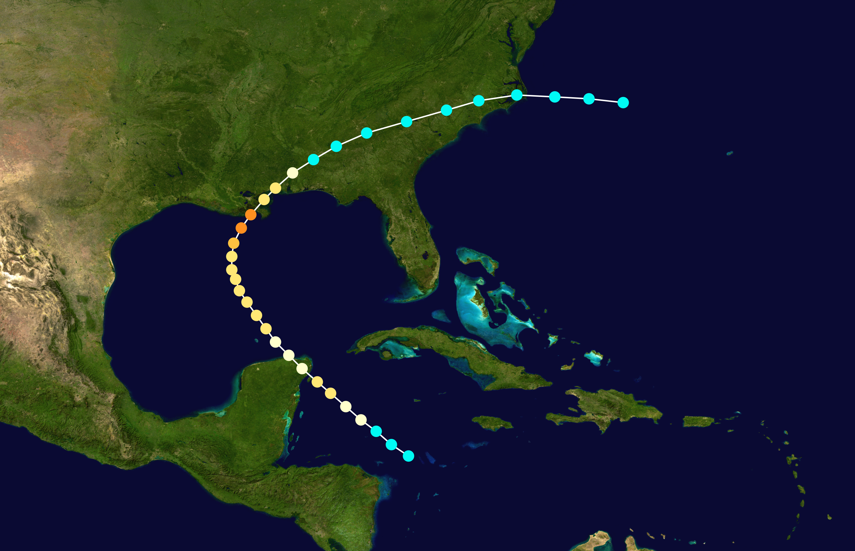 1893 Chenier Caminanda hurricane track. Uses the color scheme from the Saffir-Simpson Hurricane Scale.